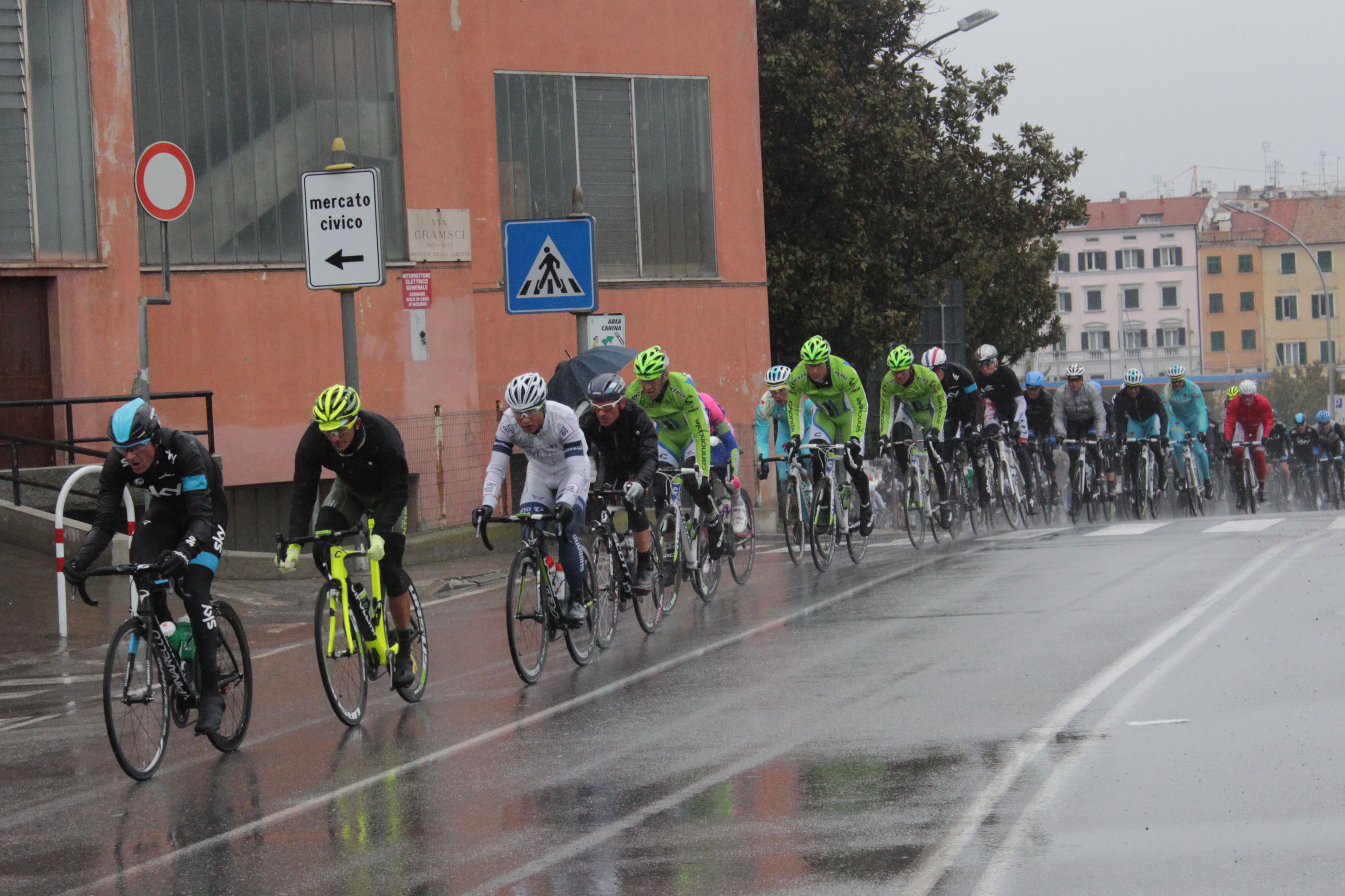 Peloton, Milan-Sanremo 2013, Savona